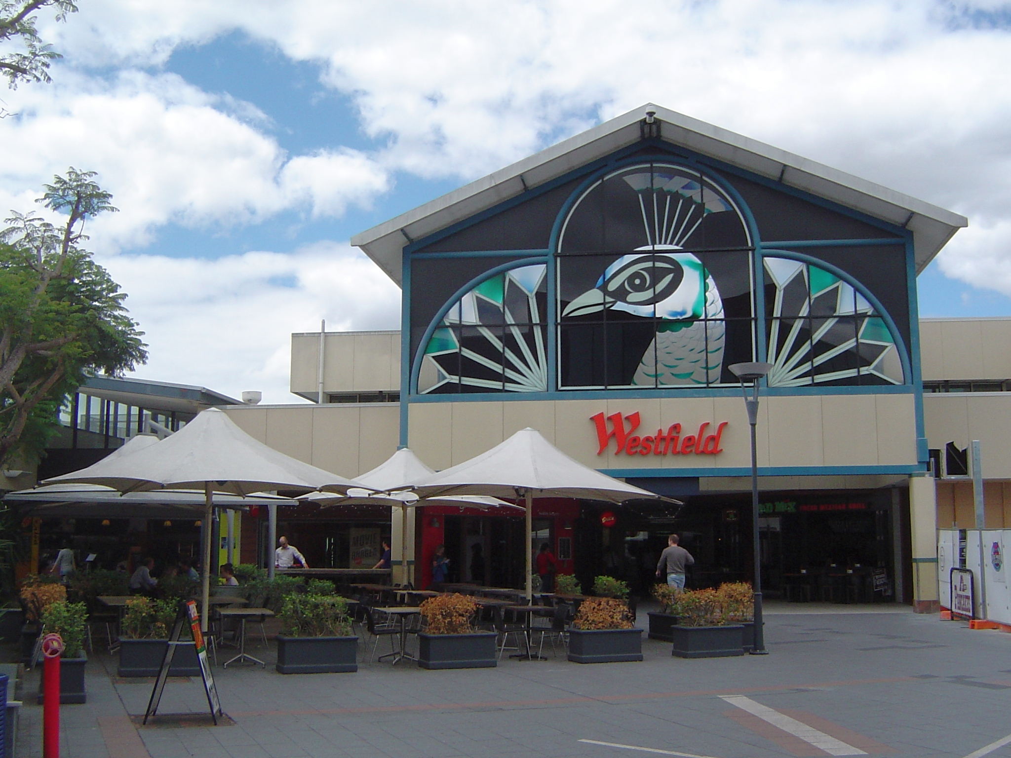 Photo of Garden City main entrace at Upper Mount Gravatt, Brisbane, Australia.